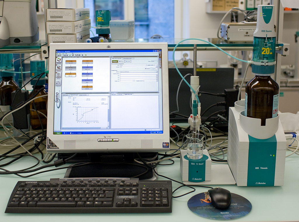 Automatic titrator manufactured by Metrohm